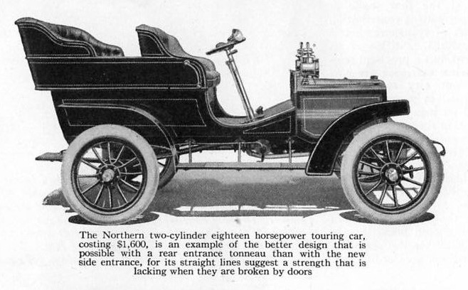 Illustration for an article about the NYC 1905 auto show. Interesting caption abut the Northern's passenger door.